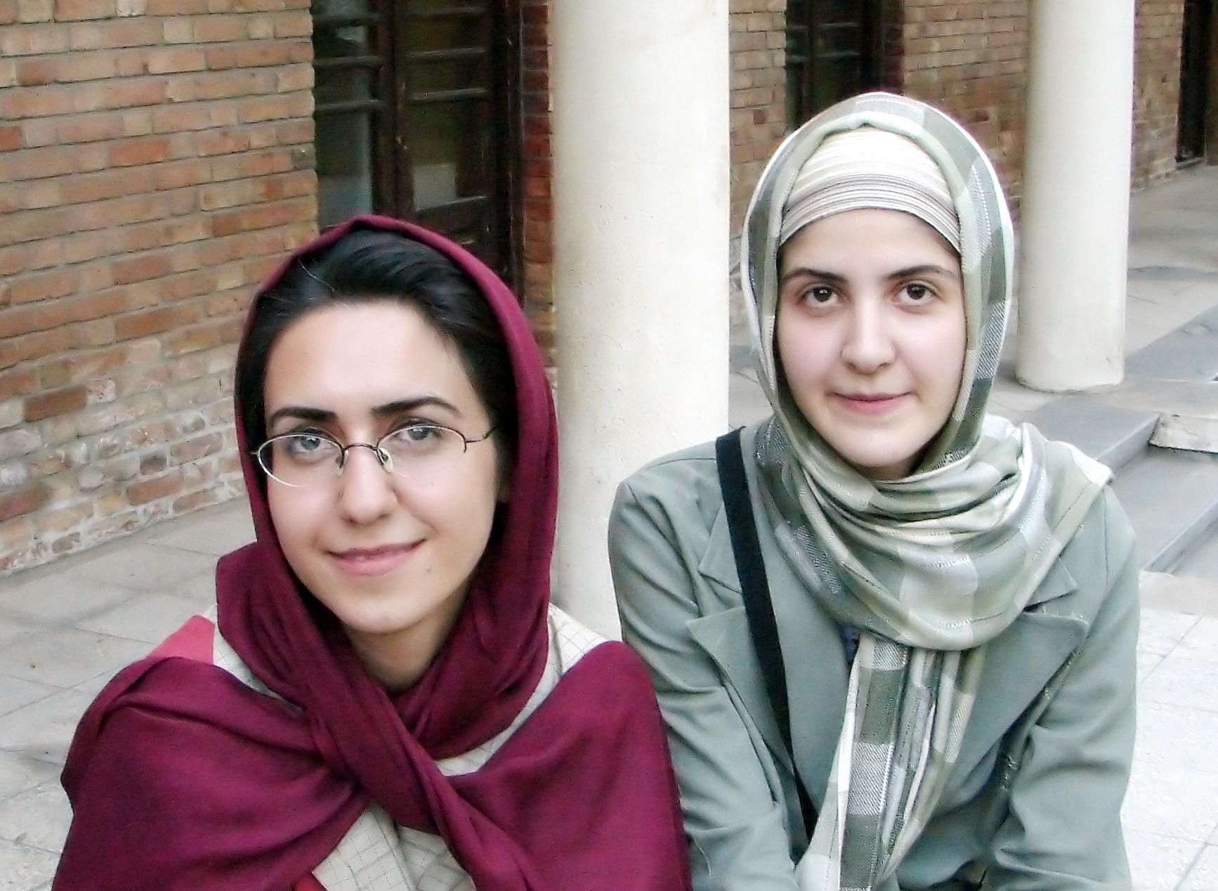 Two Iranian women wearing different types of hijab scarves; one a single scarf revealing the hair, one two scarves covering the hair completely.